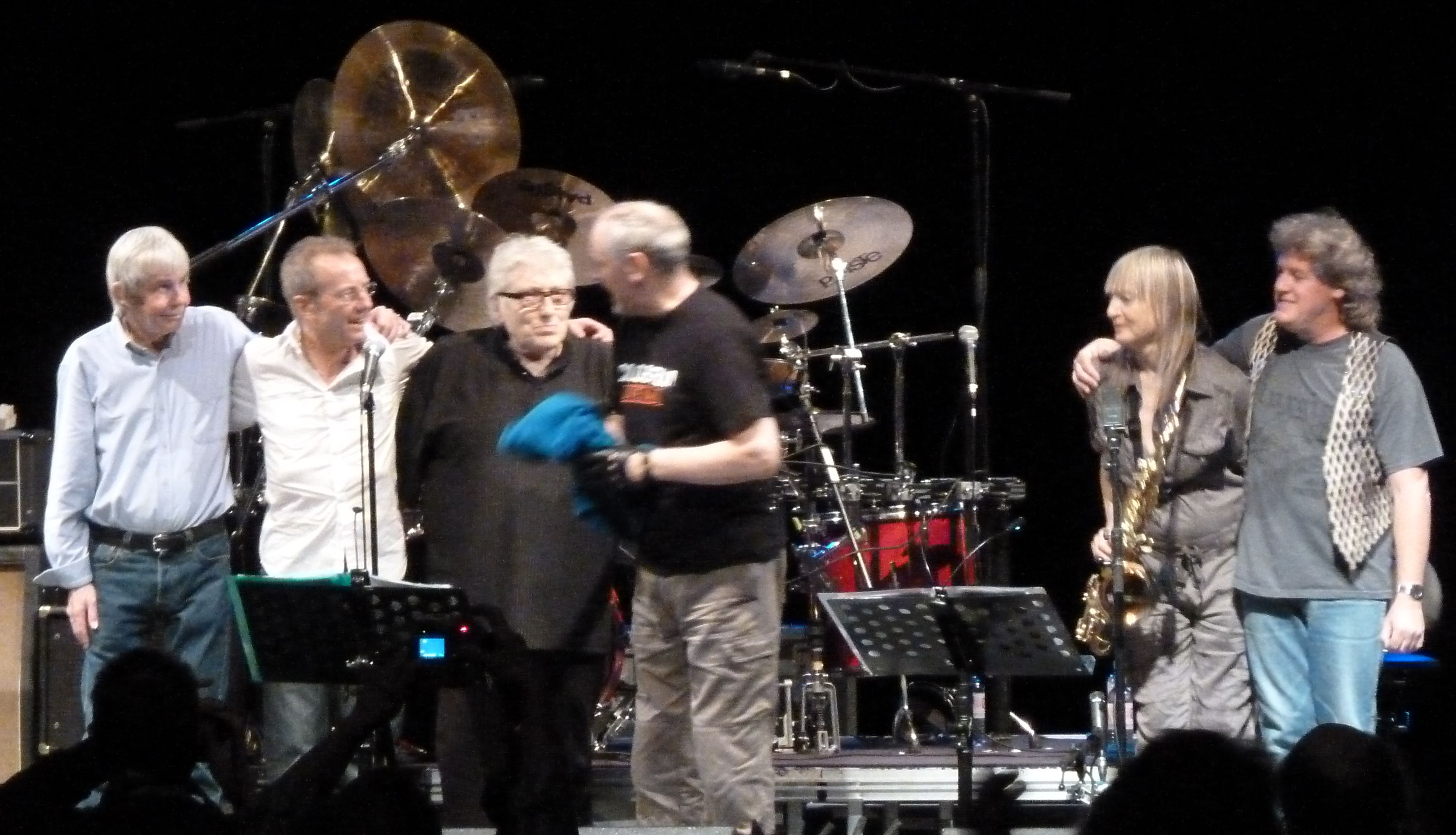 Colosseum_%28band%29